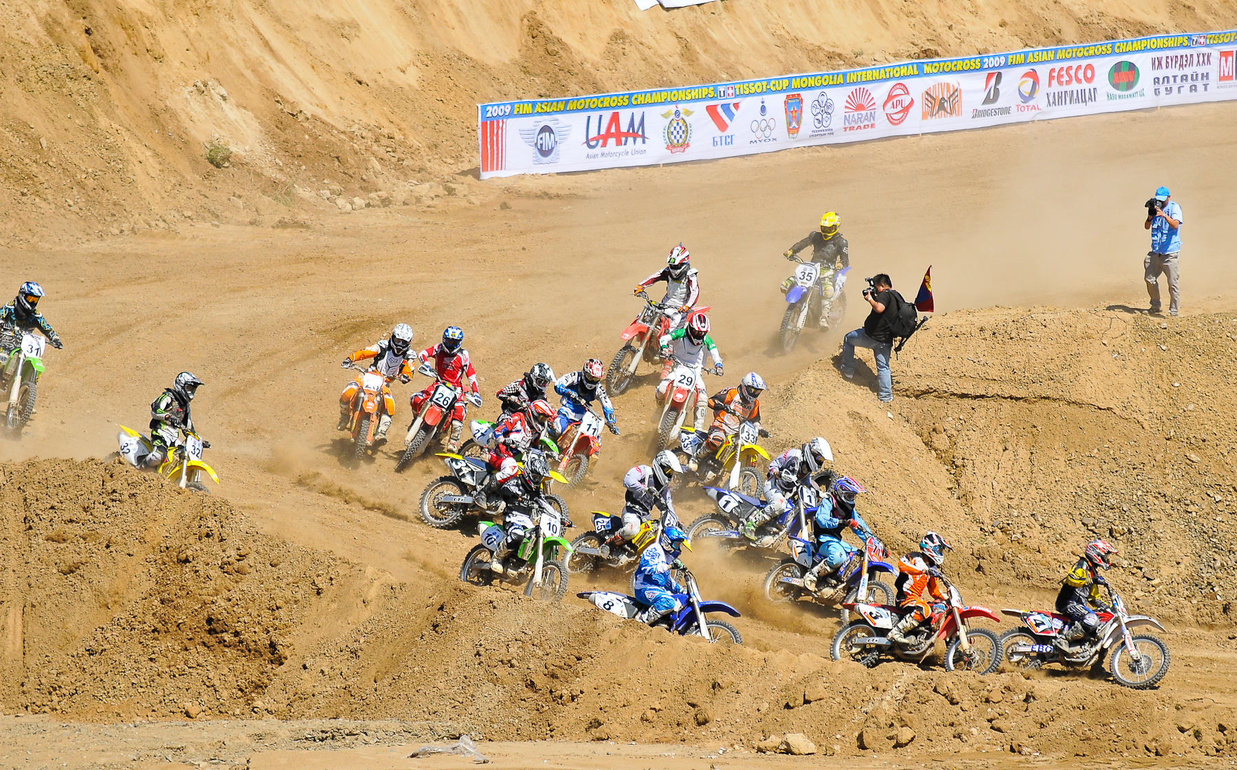 2009 FIM Asian Motocross Championship